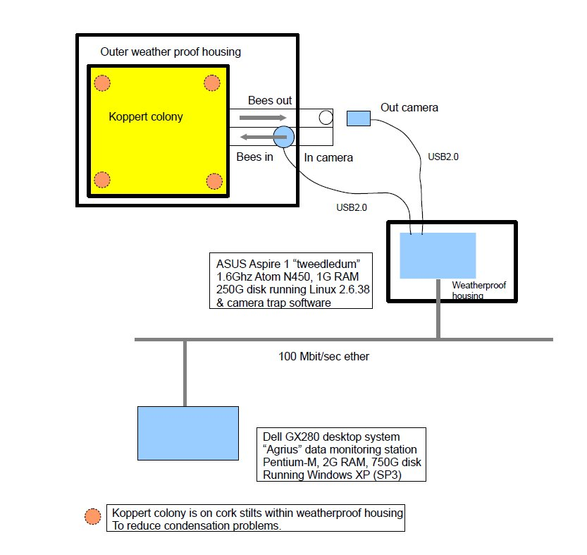 Schema for prototypical Rana motion detection system and support systems. A 802.11.g wireless LAN link can be used instead of the 100 Mbit/second ethernet when the system is deployed in glasshouse or field settings